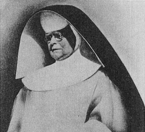 Mary Alphonsa, Mother Superior of the Dominican Sisters of Hawthorne.